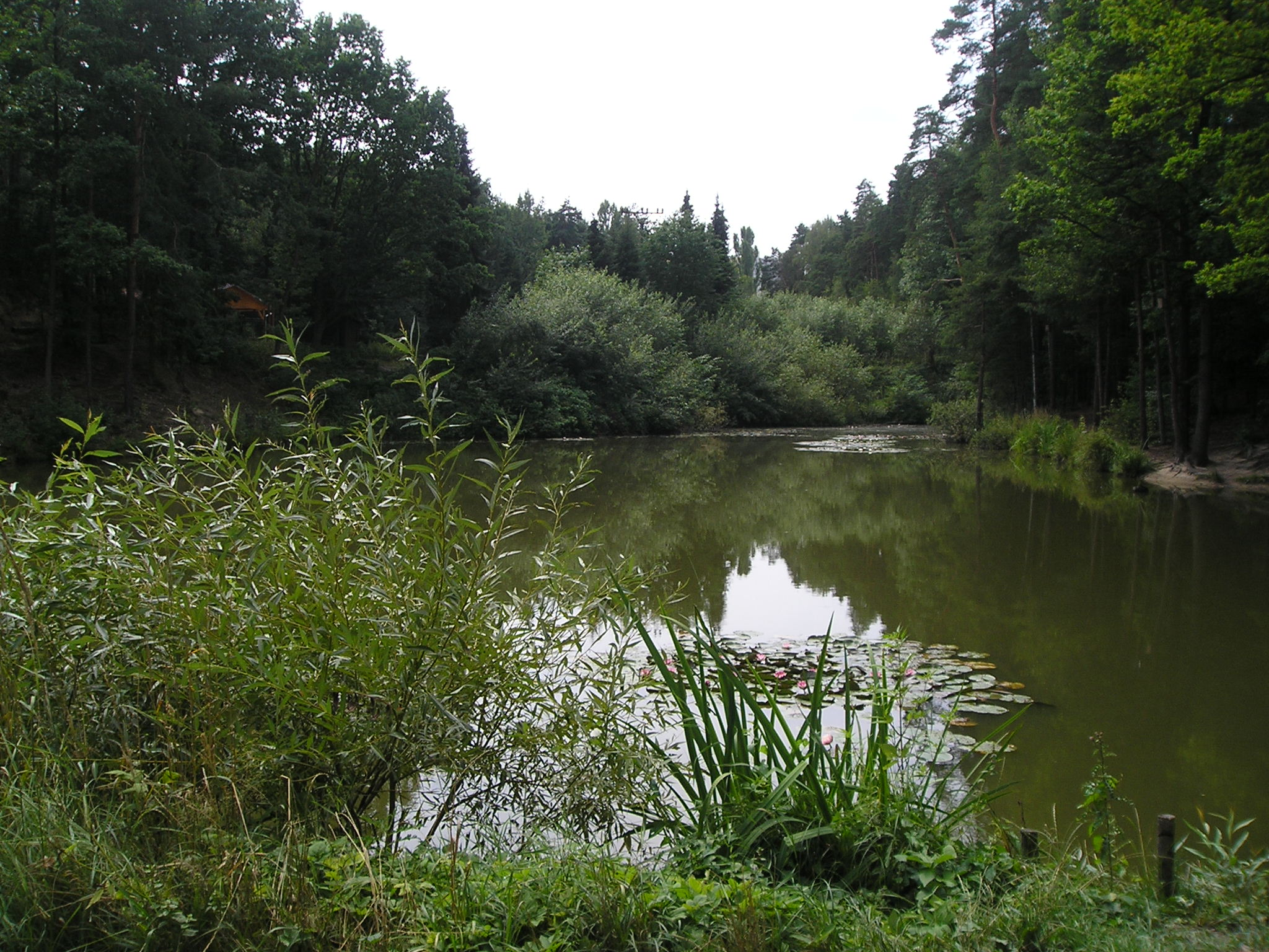 A place called "U ledárny" at Bolevec